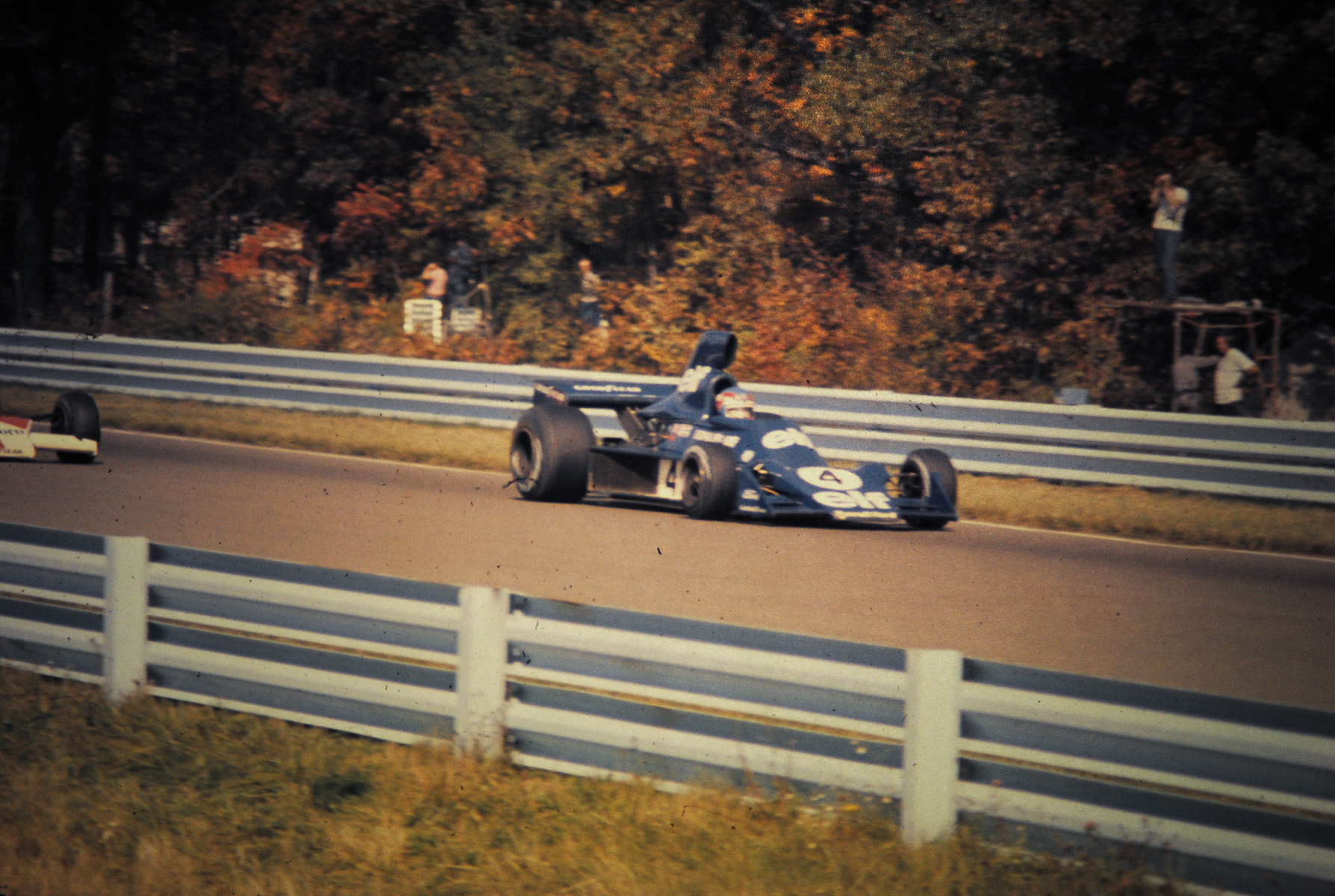 Patrick Depailler, driving his Elf Tyrrell Ford at the 1975 United States Grand Prix.